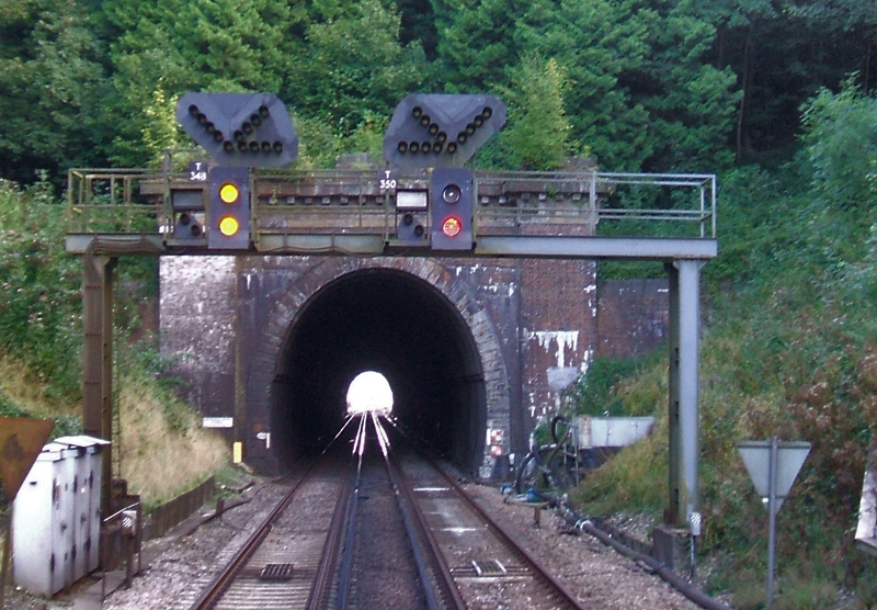 Up direction signals outside Haywards Heath tunnel The left hand signal (T348) controls trains travelling normally in the Up direction. The right hand signal (T350) controls trains travelling in the Up direction over the Down line. A train arriving at this signal has just passed through the Keymer Jn to Haywards Heath bi-directional section.